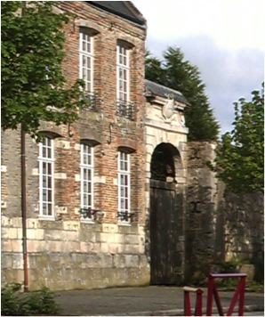 Has been built during the 17th century, on the basis of an older medieval house. This manor has been owned by the family of the princes of Condé. Was "Le Grand Condé" the first owner?